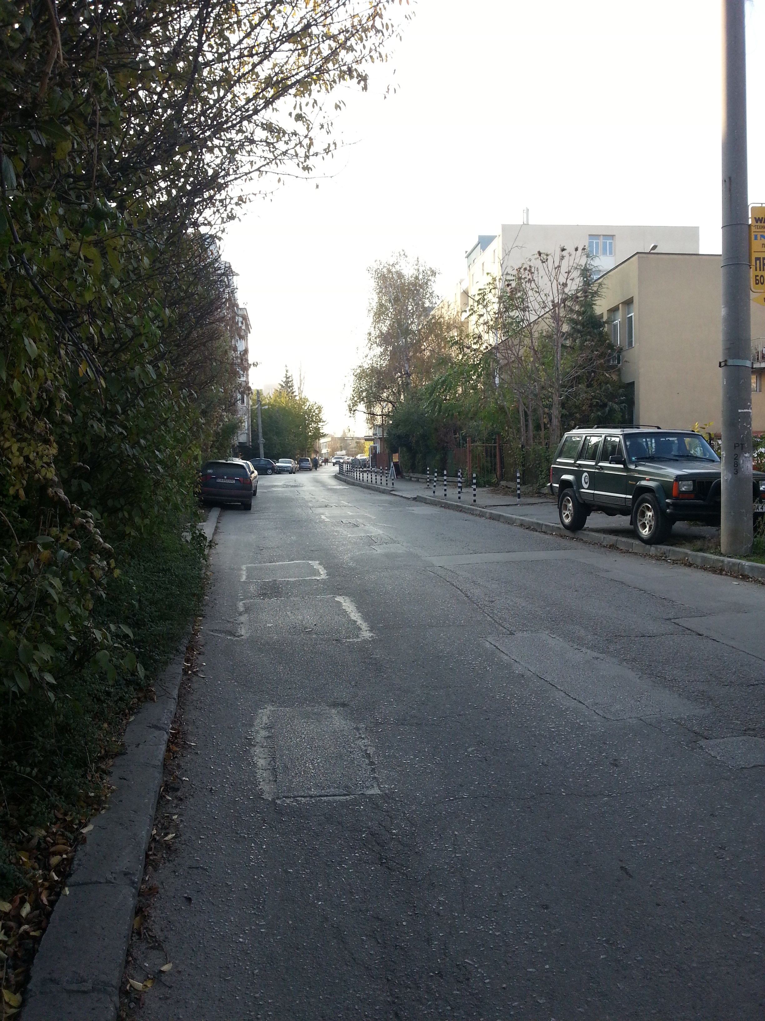 Tintyava Street, Sofia